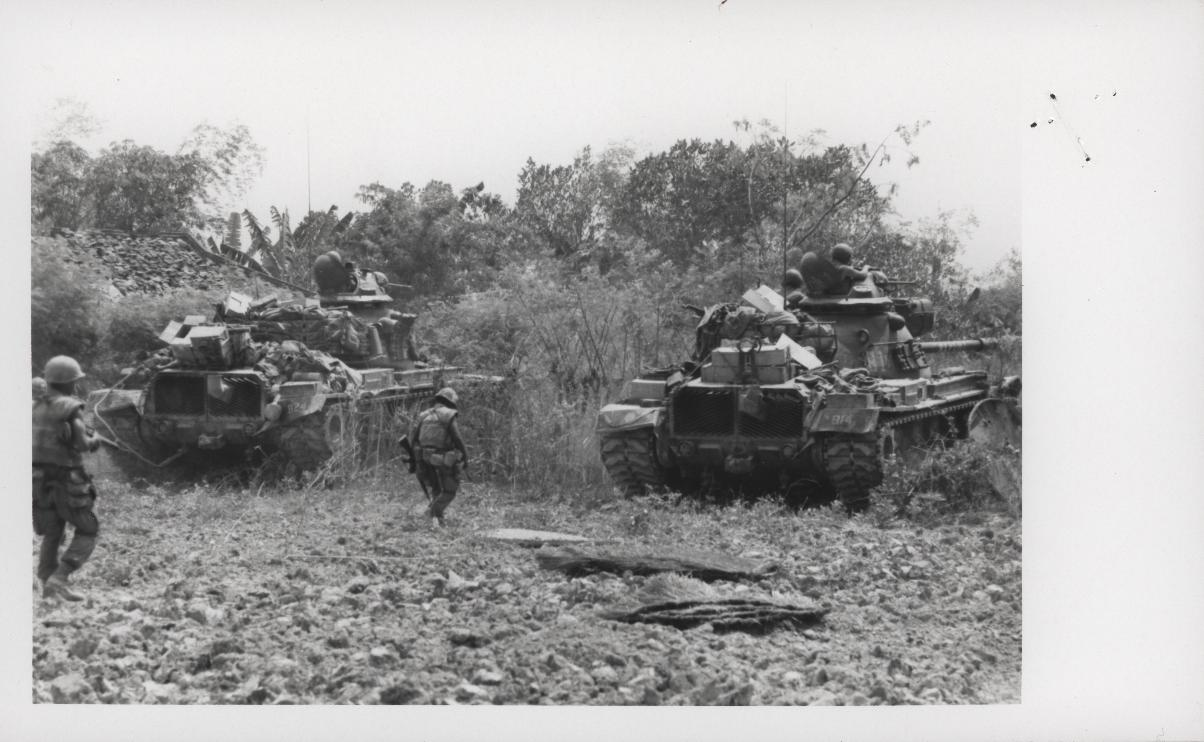 "May 1968: Armored Support: Medium tanks of B Company, 5th Tank Battalion (attached to 1st Tank Battalion, 1st Marine Division) accompany Marines of E Company, 2d Battalion, 7th Marines [E/2/7] on a sweep of Go Noi Island, southwest of Da Nang during Operation Allen Brook (official USMC photo by Corporal A. V. Huffman)." From the Jonathan Abel Collection (COLL/3611), Marine Corps Archives & Special Collections. OFFICIAL USMC PHOTOGRAPH